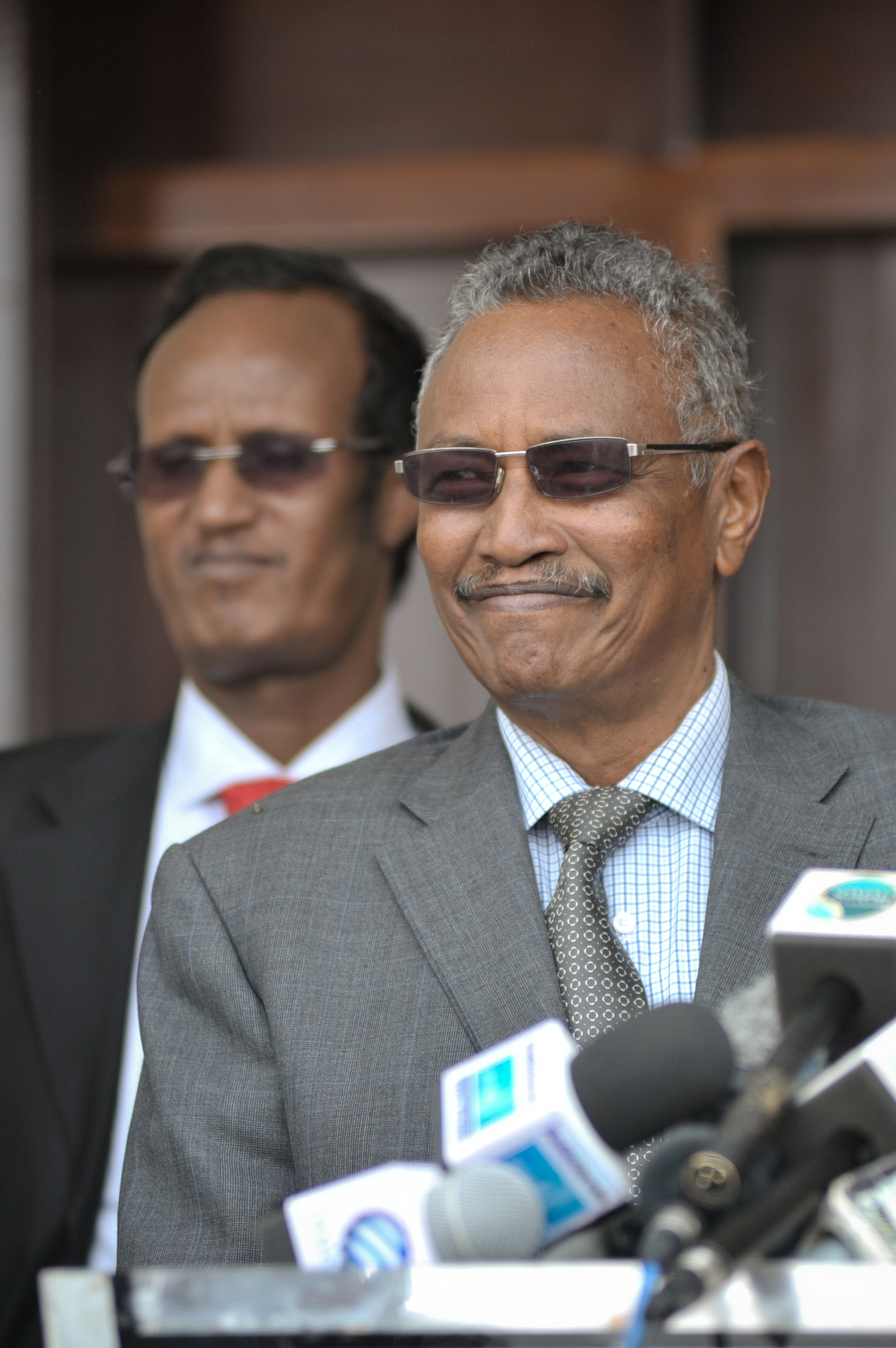 President Abdirahman Farole of Puntland speaks to the press after a meeting with the Special Representative of the United Nations Secretary-General, Nicholas Kay, on July 13. The trip was Kay's first to the region since having taken on the role. AU UN IST PHOTO / TOBIN JONES.